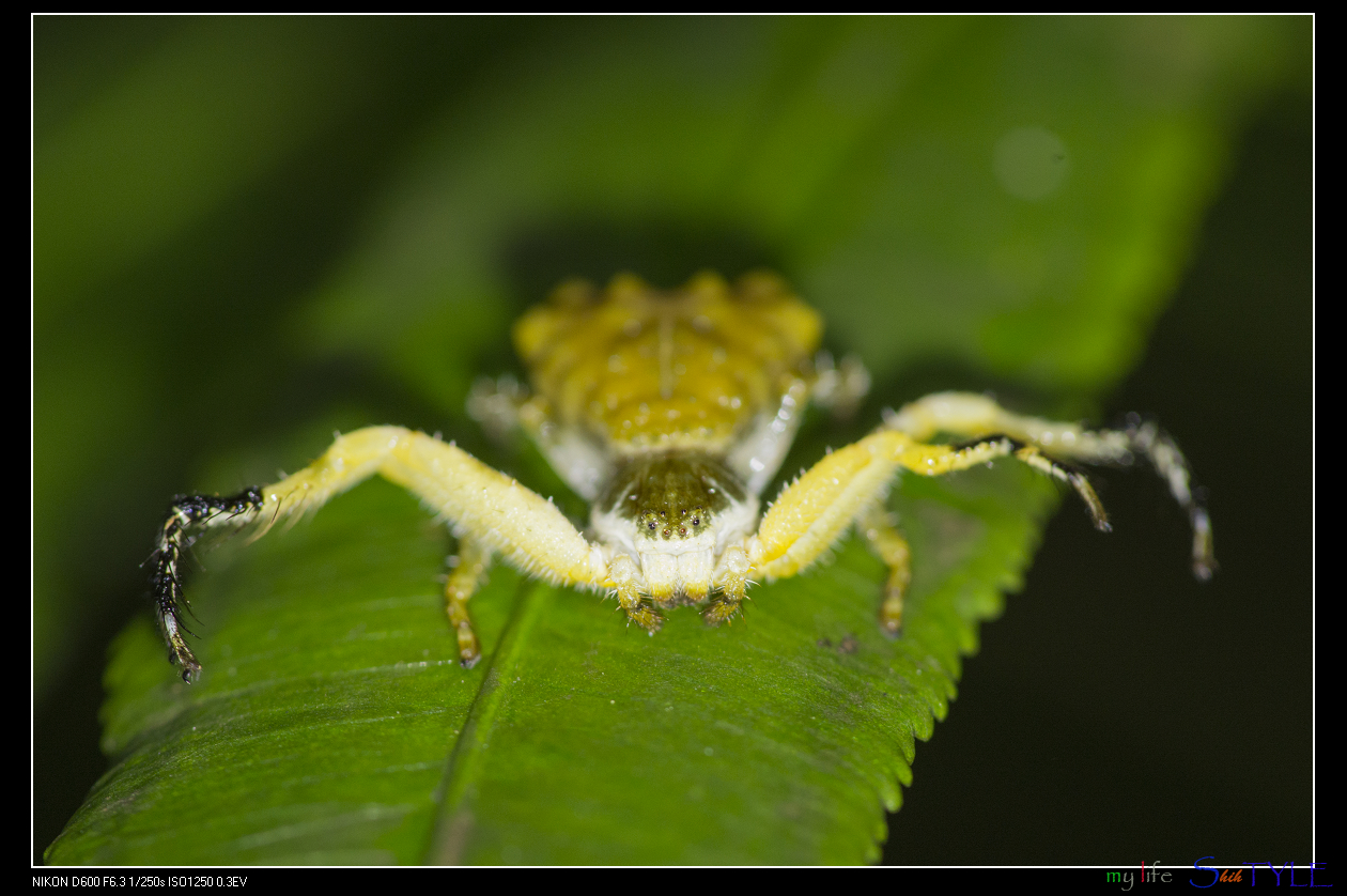 Phrynarachne ceylonica (Cambridge, 1884) 錫蘭瘤蟹蛛 Various animals of LiCheng Shih